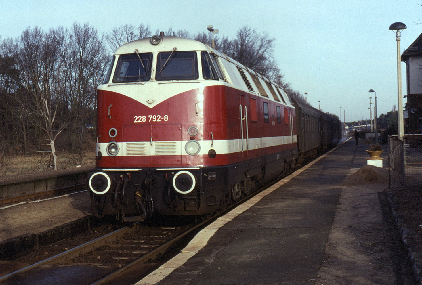 228.792 during a station stop at Beelitz on 13 January 1993 whilst hauling train 5247, 10:14 Potsdam Stadt to Jüterbog.